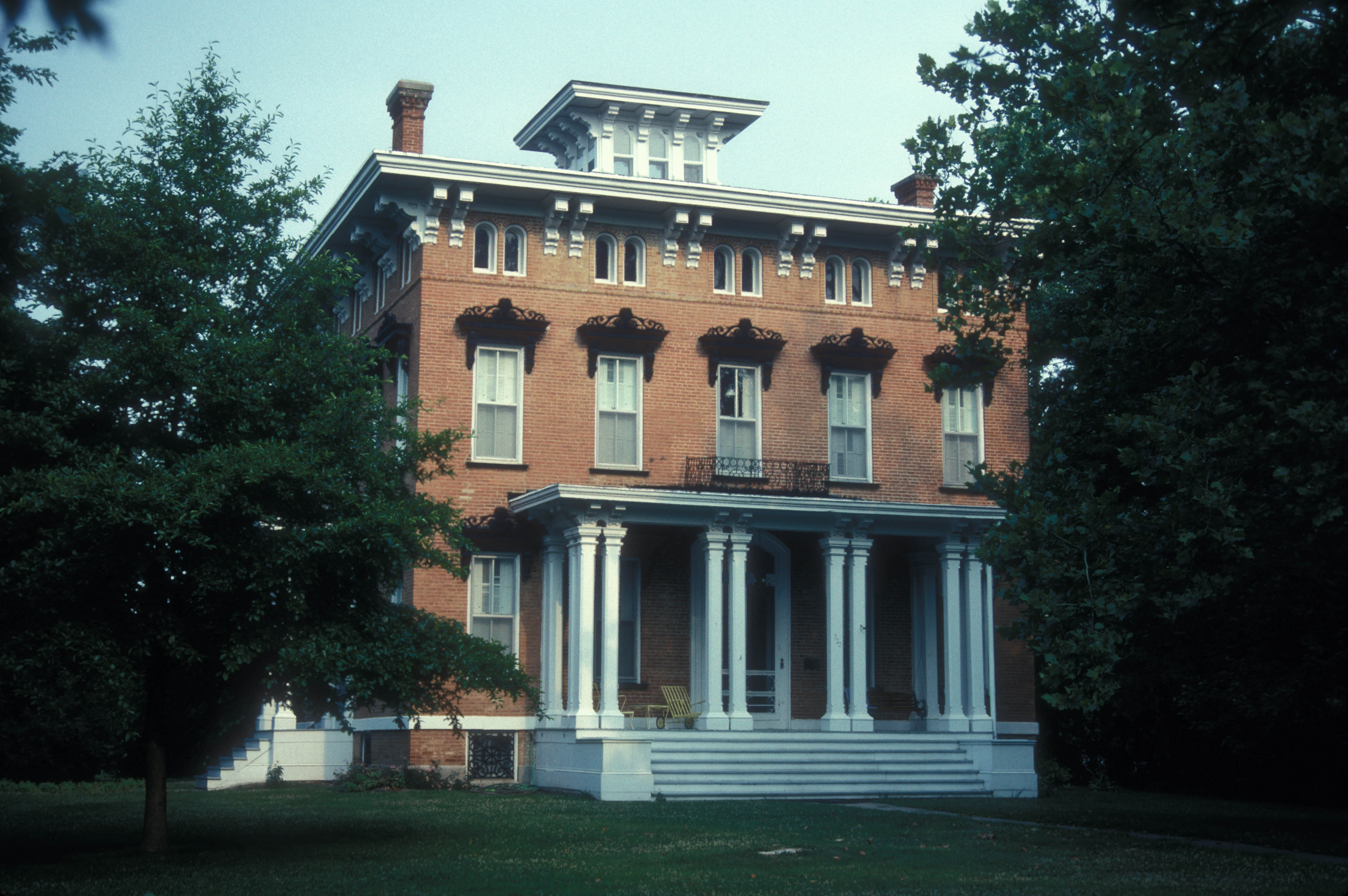 The Benjamin House, now known as the Shelbina Mansion, at 322 Shelby Street in Shelbina, Missouri.